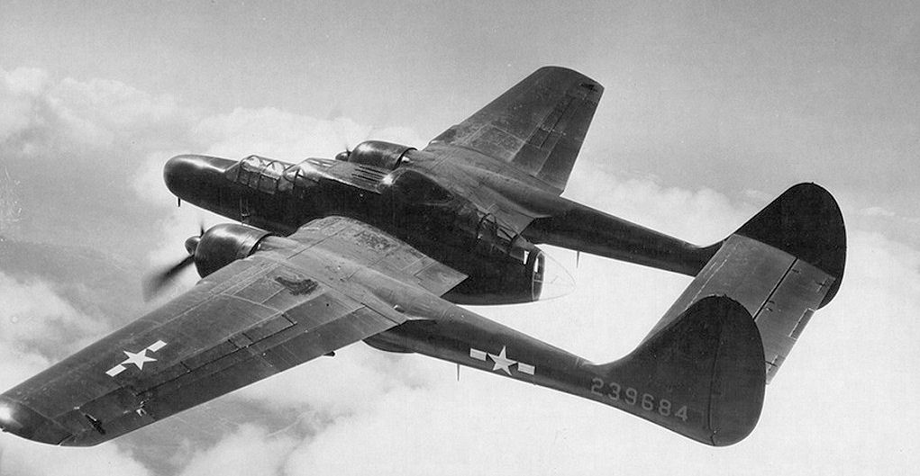 415th Night Fighter Squadron Northrop P-61B-15-NO Black Widow 42-39684